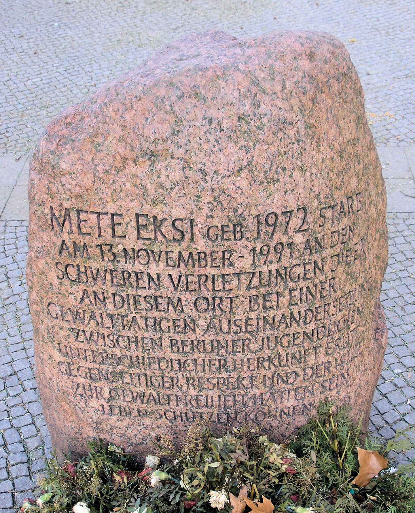 Memorial stone, Mete Ekşi, Adenauerplatz , Berlin-Charlottenburg, Germany